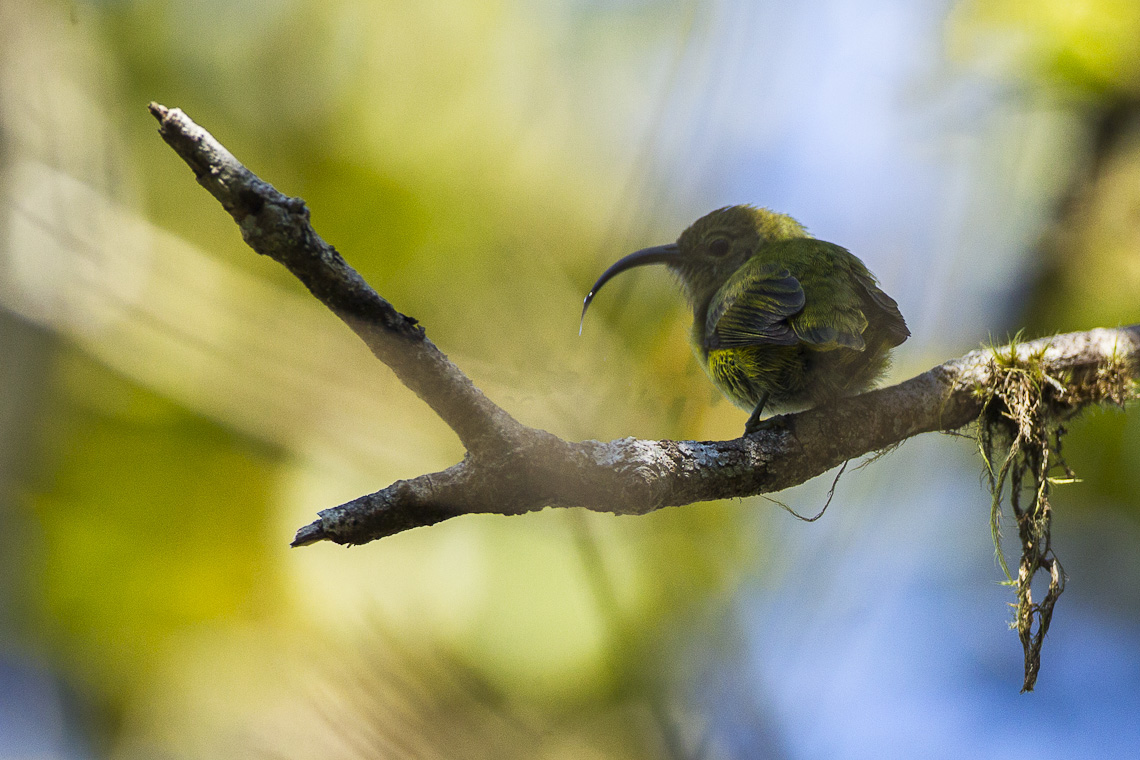 Yellow-bellied Asity fem - Ranomafana - Madagascar_S4E8256